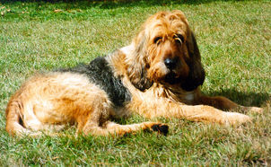 Picture of an Otterhound